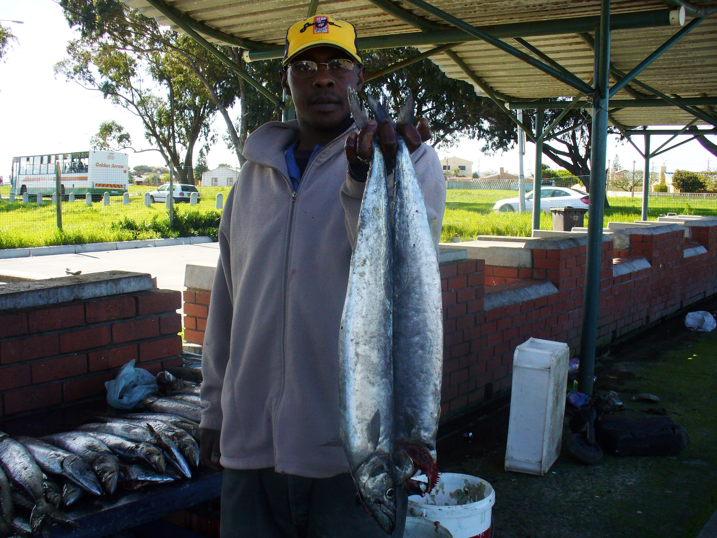 Snoek, Thyrsites atun, Cape Town 2006